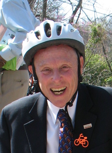 From flickr: Mayor Darwin Hindman rides his bicycle most everywhere he goes. Mayor Hindman has been a driving force behind the work to make Columbia [Missouri] a bicycle-friendly city.